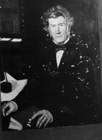 Abraham Law, cropped and enhanced